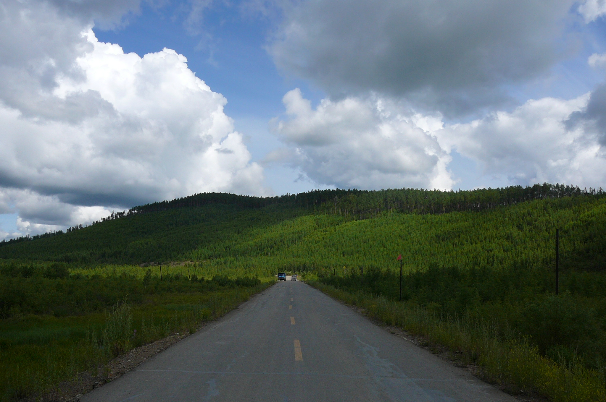 Jiagedaqi-Mohe highway